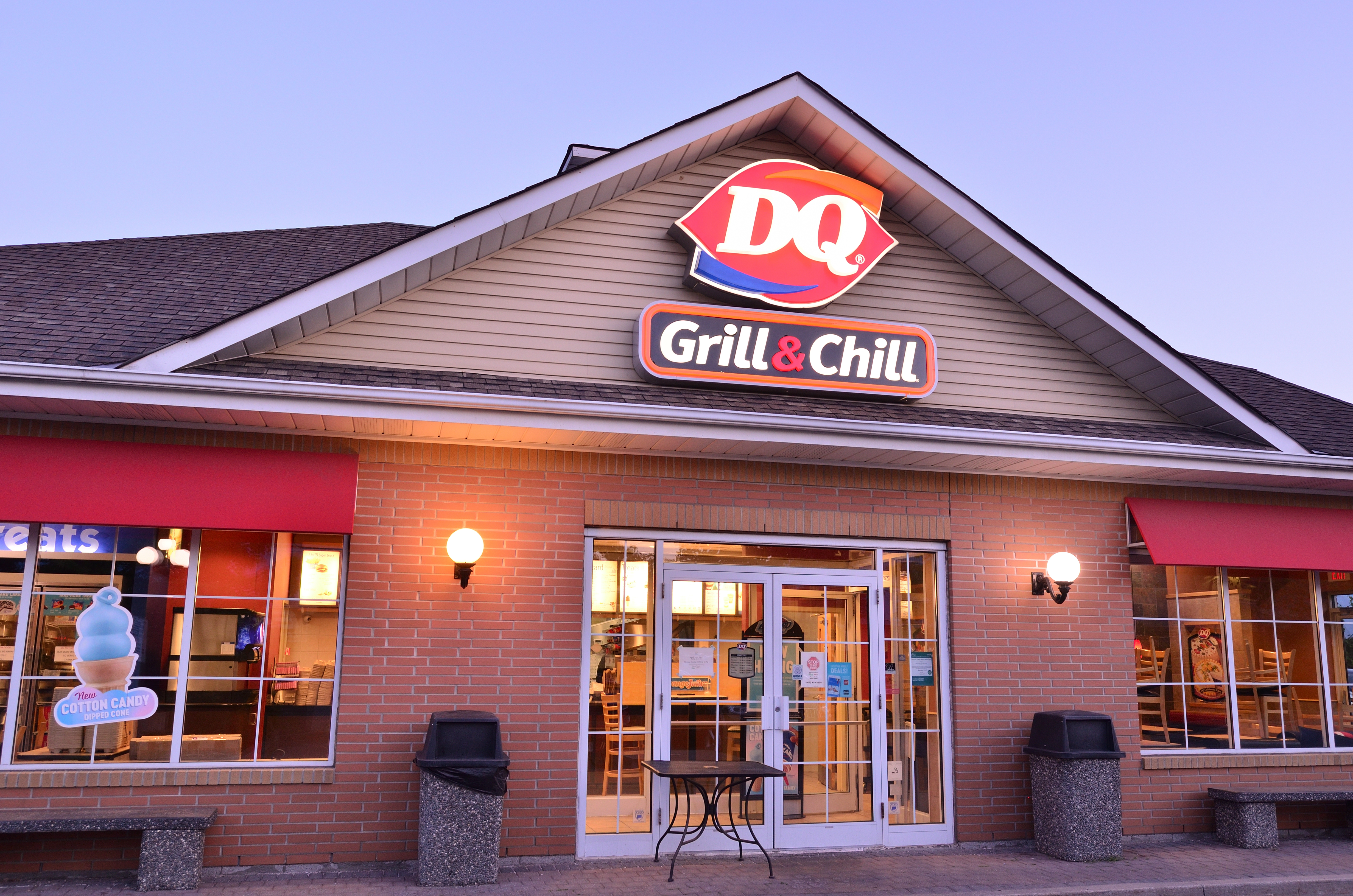 Dairy Queen - Address: 7708 Kennedy Rd, Markham, ON L3R 9S5